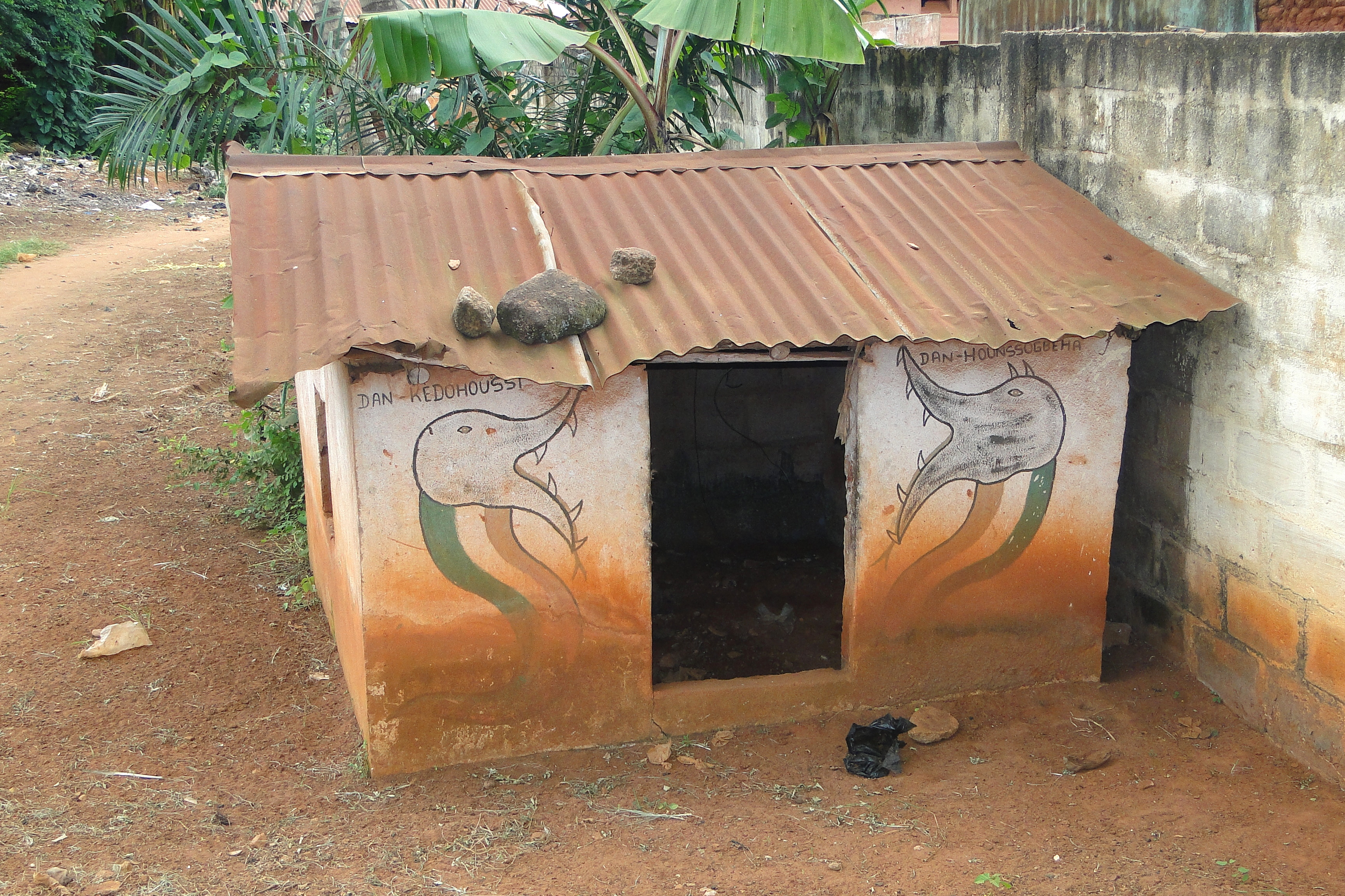 Vodun Voodoo Shrine - Abomey - Benin - 01